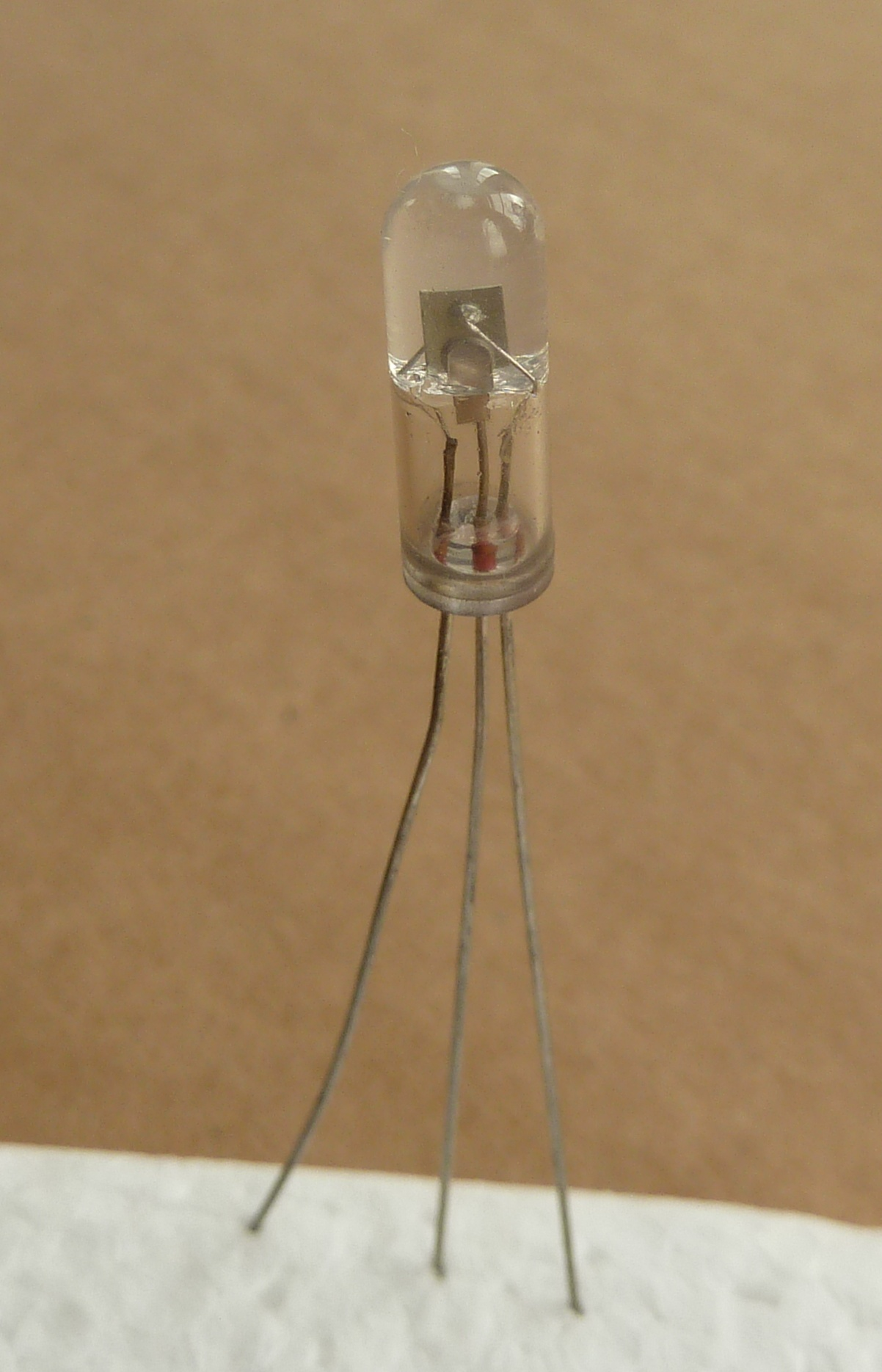 OCP71 germanium phototransistor in clear glass SO2 case. This is otherwise identical to the OC71 PNP transistor, except for the clear case. The large square is the base substrate of n-type germanium. The blob on top of this is the indium pellet, used to form a layer of p-type germanium and thus the emitter. A similar, but larger, blob on the other side forms the collector. The contact below the blob is the wire connection to the base.[1] Bought new, over the counter in a radio shop, in 2011!